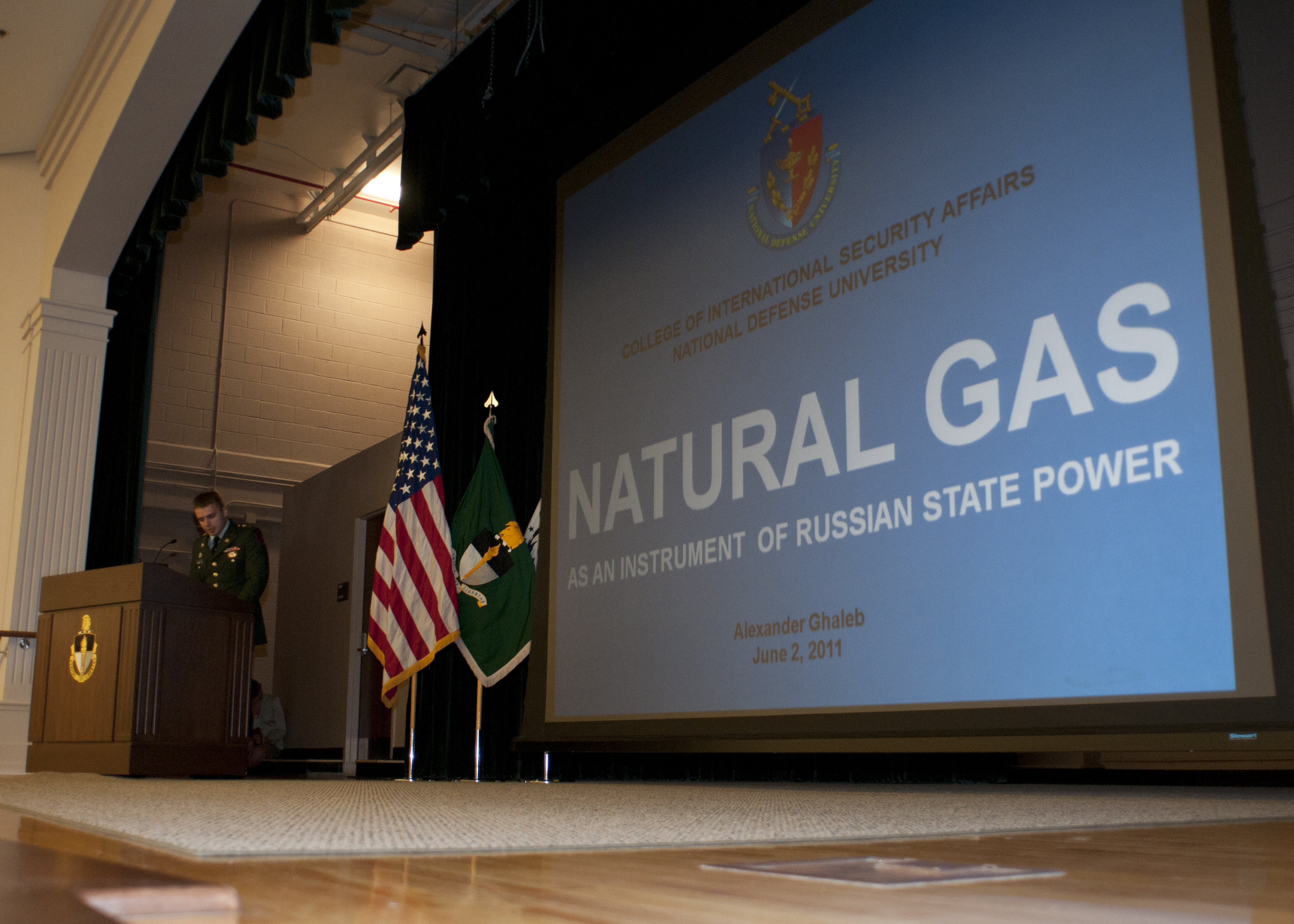 Capt. Alexander Ghaleb presents his master's degree thesis, "Natural Gas as an Instrument of Russian State Power," to a crowd of instructors and students from the National Defense University and U.S. Army John F. Kennedy Special Warfare Center and School June 2 on Fort Bragg, N.C. Ghaleb is a Military Information Support Operations officer assigned to Fort Bragg.